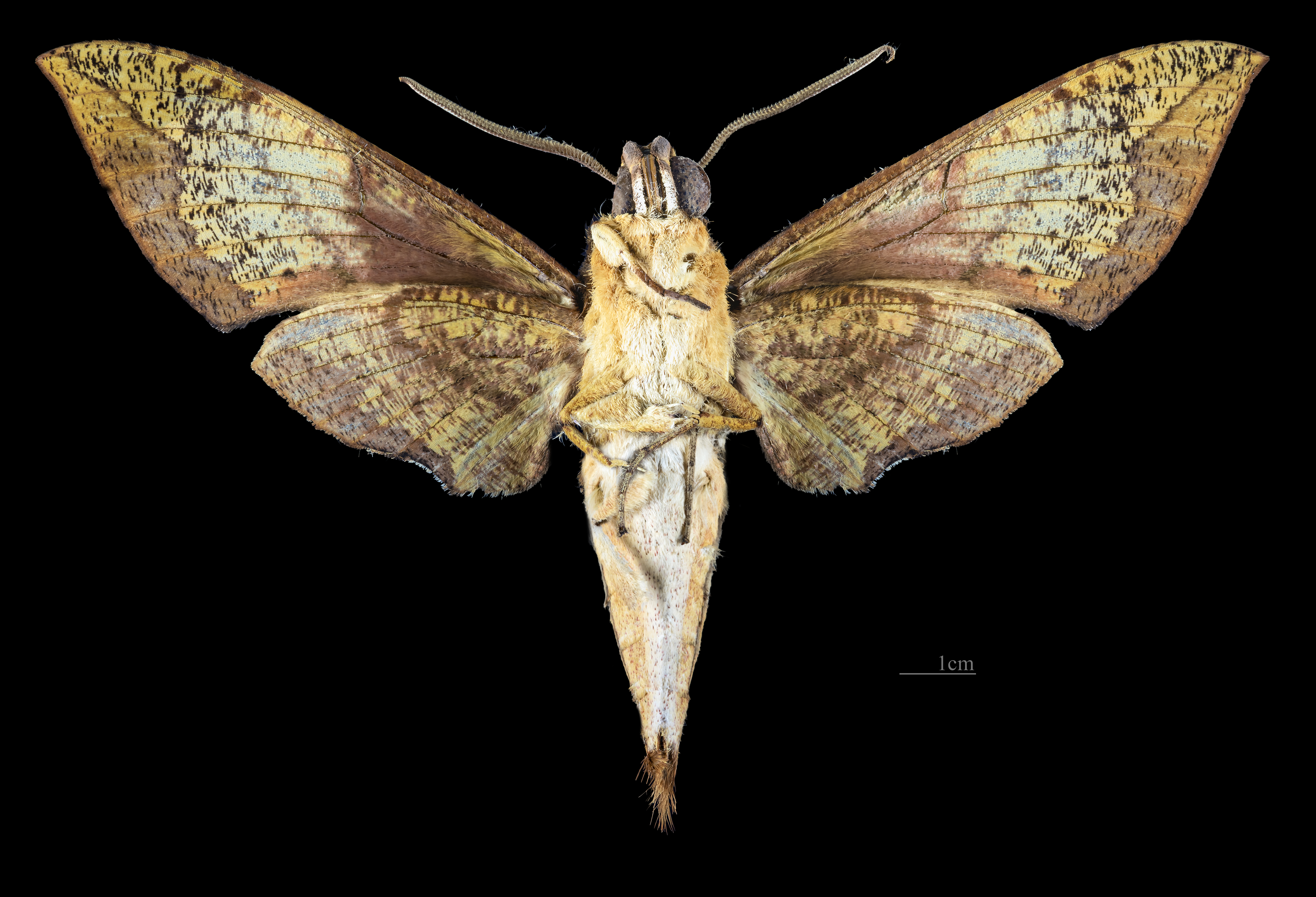 Cechenena transpacifica - △ Ventral side Collection of the Mathematician Laurent Schwartz